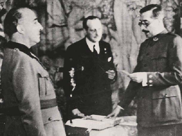 Juan Beigbeder y Atienza being sworn in as Spanish Minister of Foreign Affairs in the presence of General Francisco Franco in August 1939 at Burgos. Beigbeder will be minister of foreign affairs from August 1939 to October 1940.